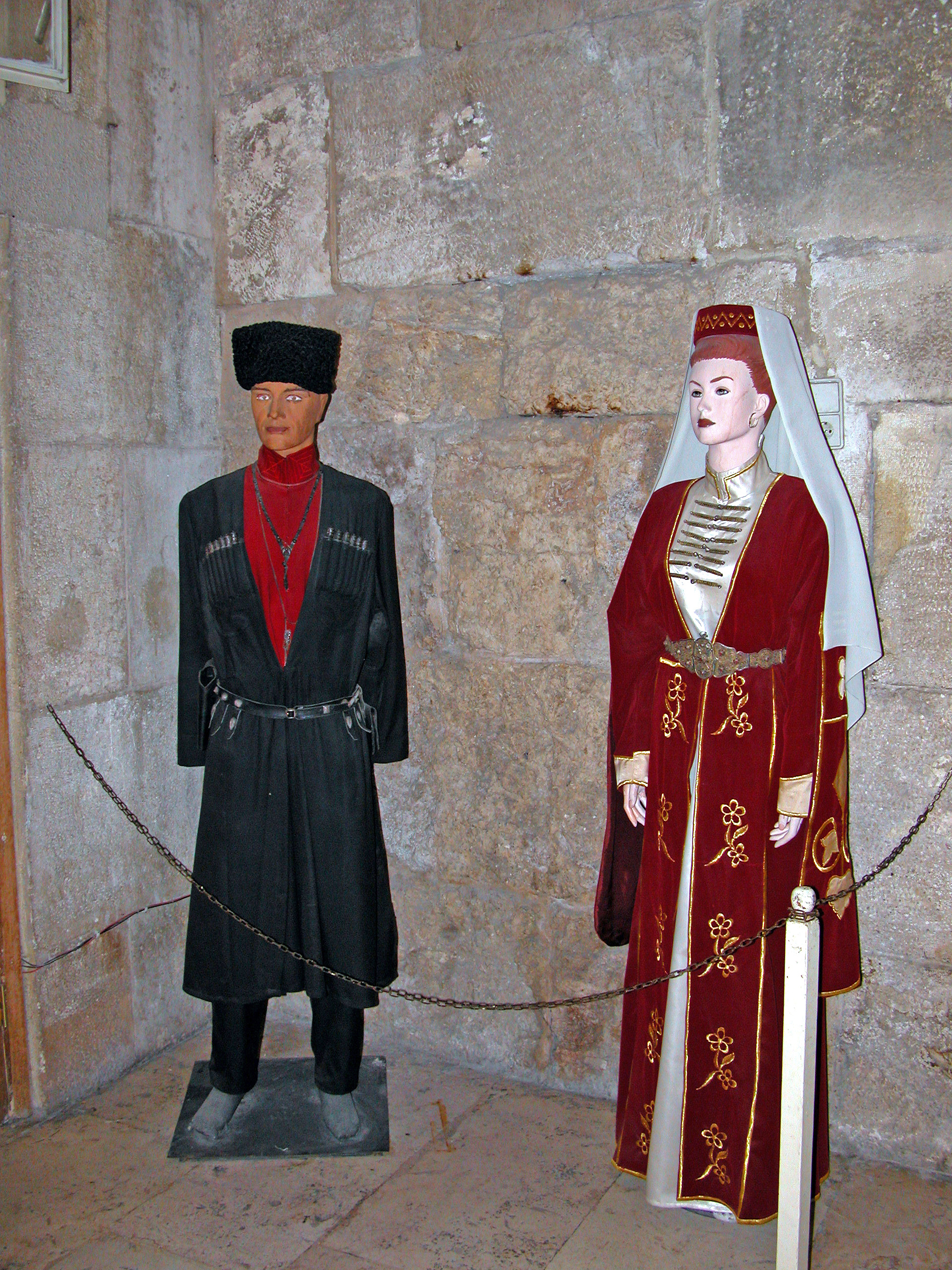 At each end of the Roman theatre are museums that show traditional things in Jordan. Amman, Jordan